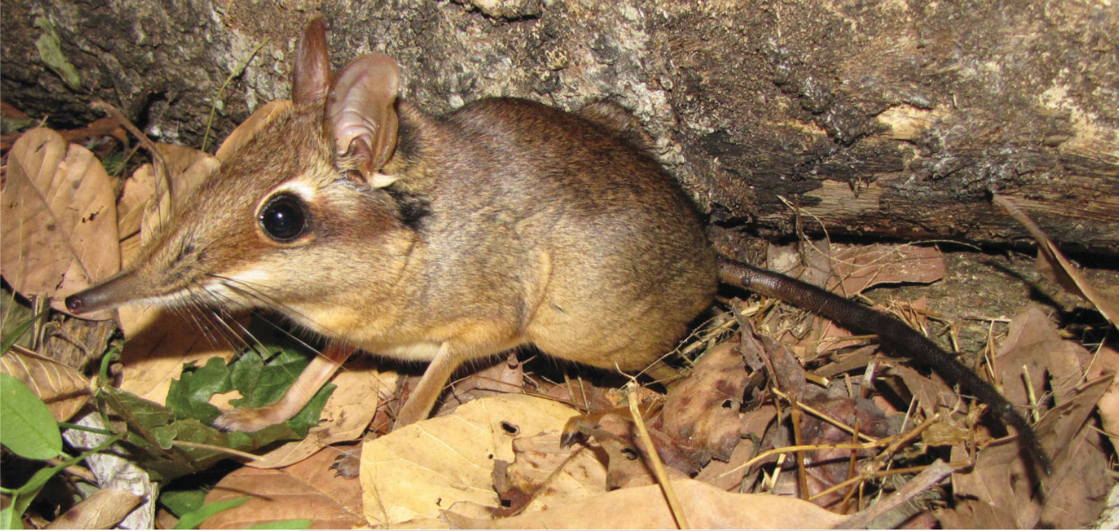 The four-toed sengi (Petrodromus tetradactylus), Mareja Community Reserve, Pemba, northern Mozambique, 17 June 2011, specimen number CAS MAM 29347